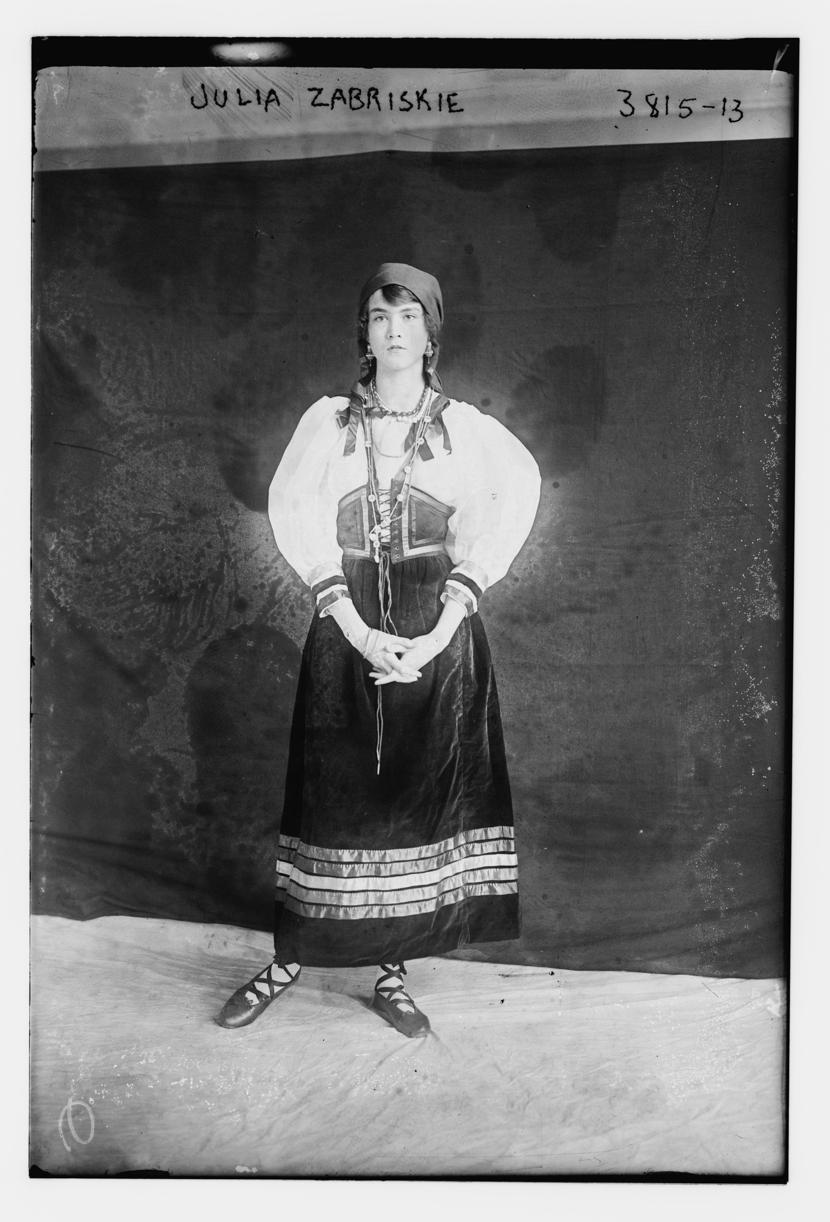 Title: Julia Zabriskie [in costume] Abstract/medium: 1 negative : glass ; 5 x 7 in. or smaller.